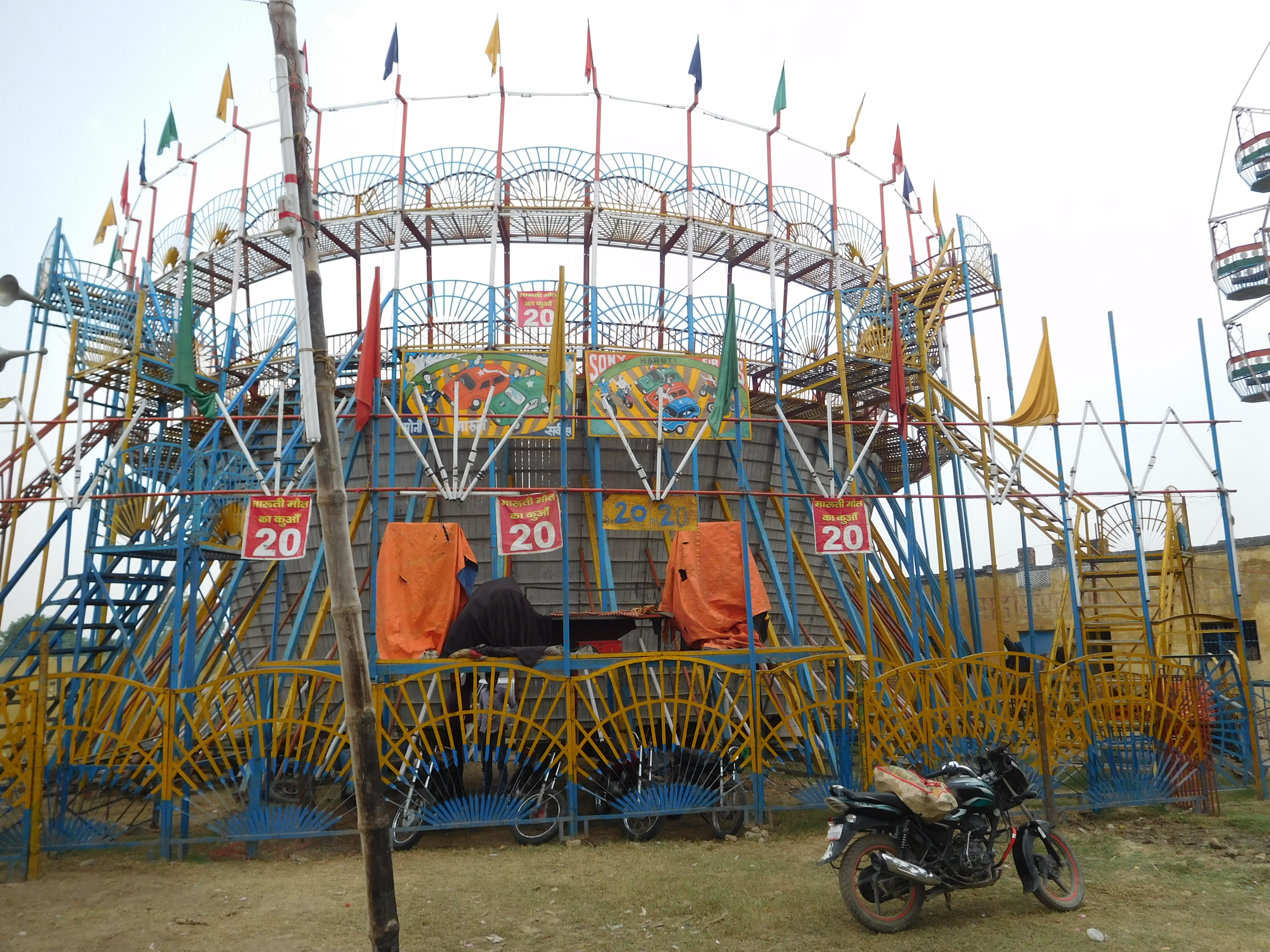 External view of circus at Akbarpur,Kanpur Dehat